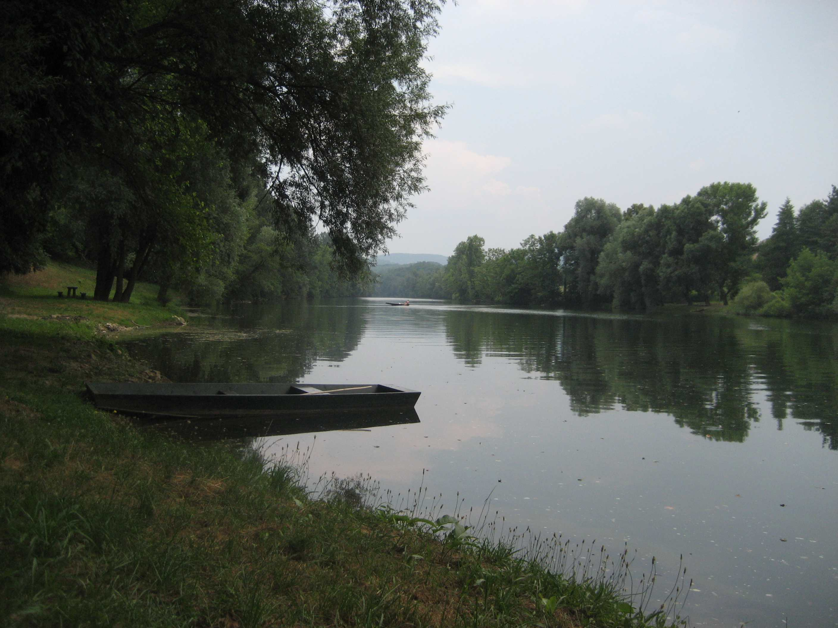 River Kupa, Croatia